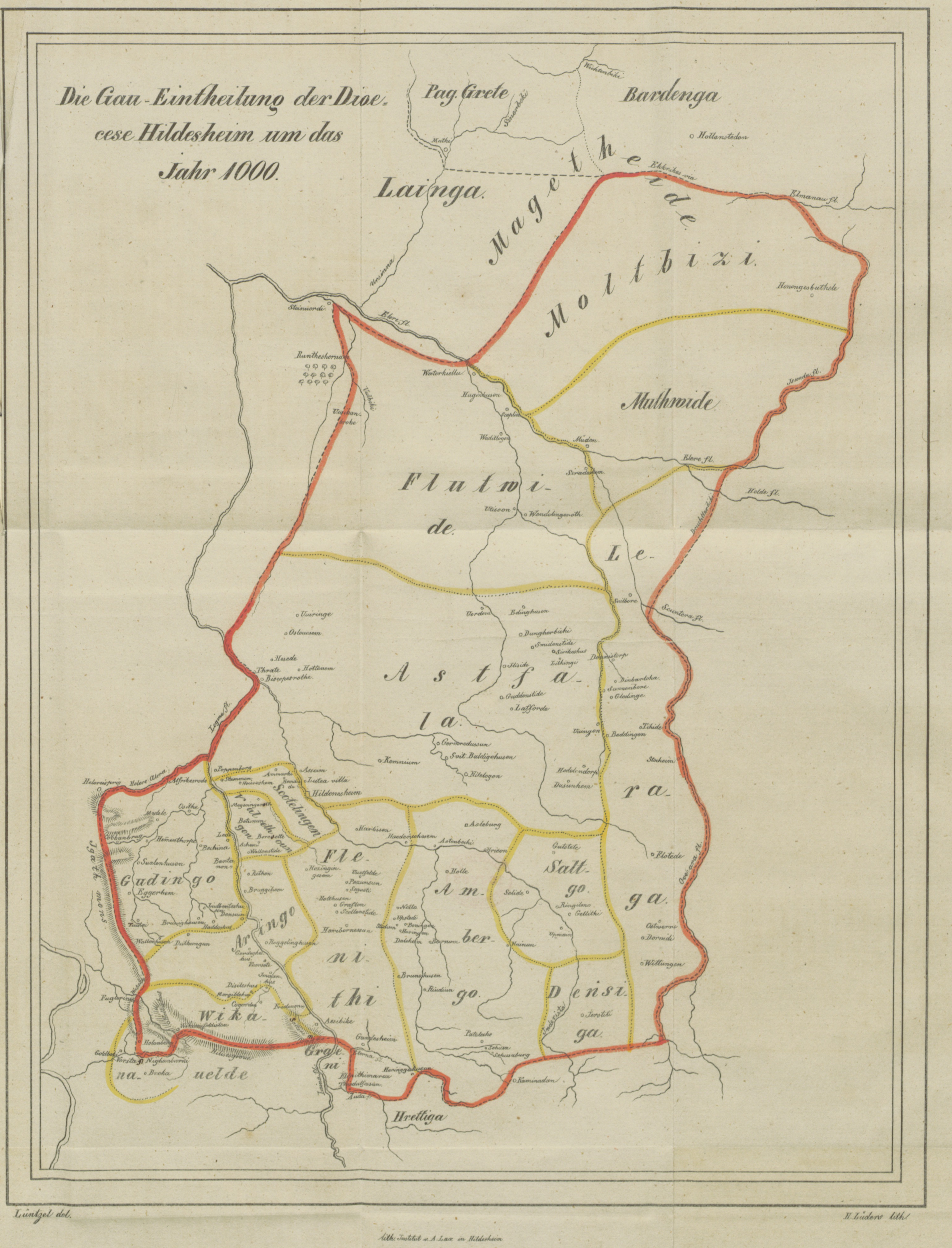 View this map on the BL Georeferencer service. Image taken from: Title: "Die ältere Diöcese Hildesheim. ... Mit zwei Charten" Author: LUENTZEL, Hermann Adolf. Shelfmark: "British Library HMNTS 10231.g.6." Page: 495 Place of Publishing: Hildesheim Date of Publishing: 1837 Issuance: monographic Identifier: 002281099 Explore: Find this item in the British Library catalogue, 'Explore'. Download the PDF for this book (volume: 0) Image found on book scan 495 (NB not necessarily a page number) Download the OCR-derived text for this volume: (plain text) or (json) Click here to see all the illustrations in this book and click here to browse other illustrations published in books in the same year. Order a higher quality version from here.